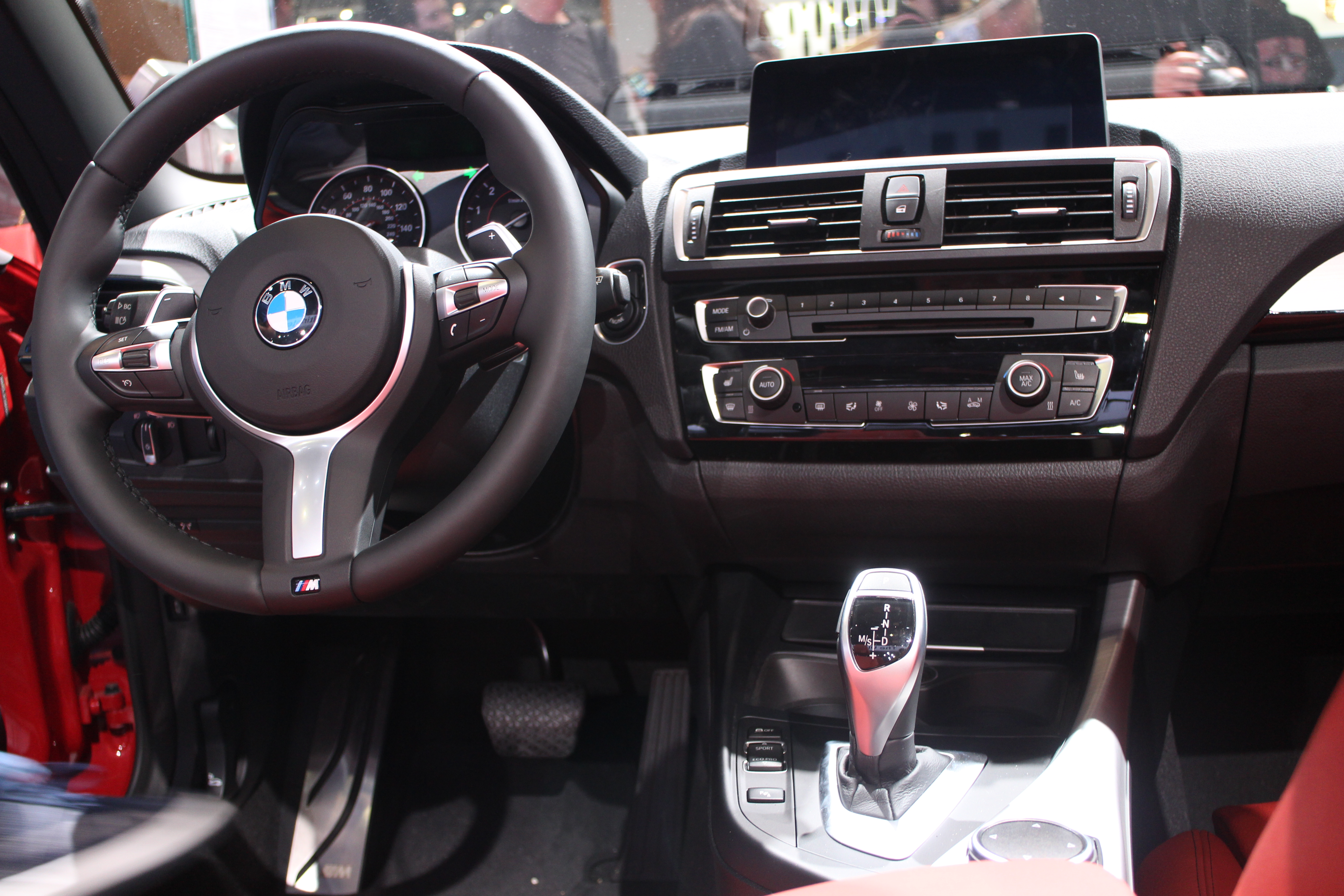 Center console for a BMW 1 series (F20) vehicle